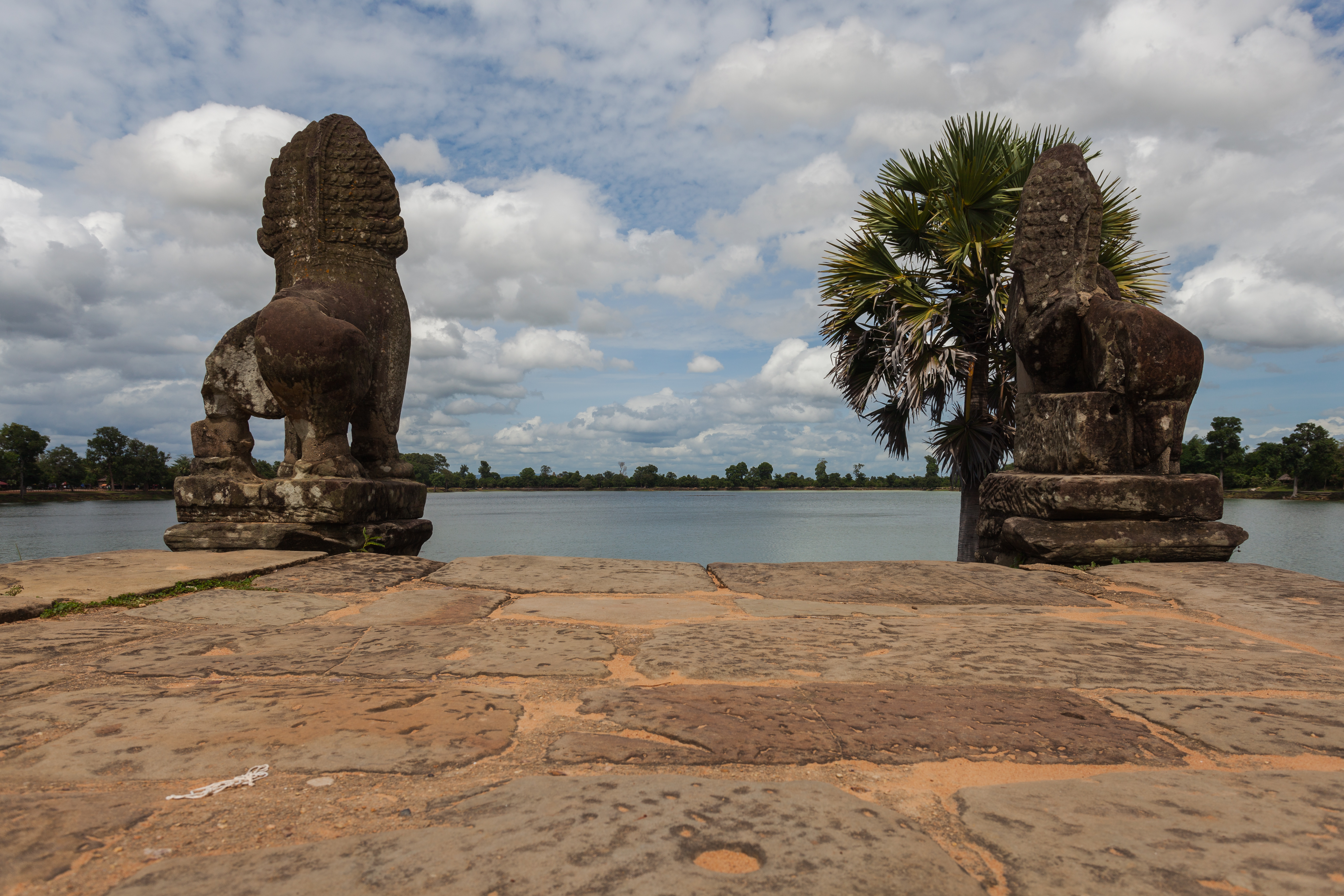 Srah Srang, Angkor, Cambodia